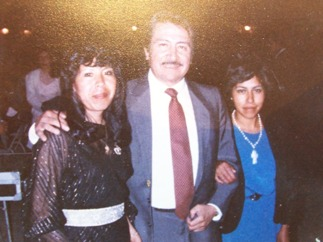 Juan Torrea Robles